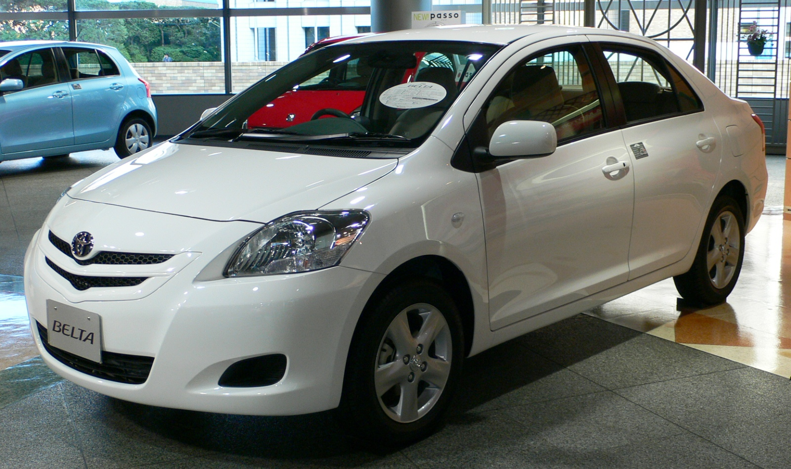 Toyota_Belta (2005 - ) photographed in AMLUX